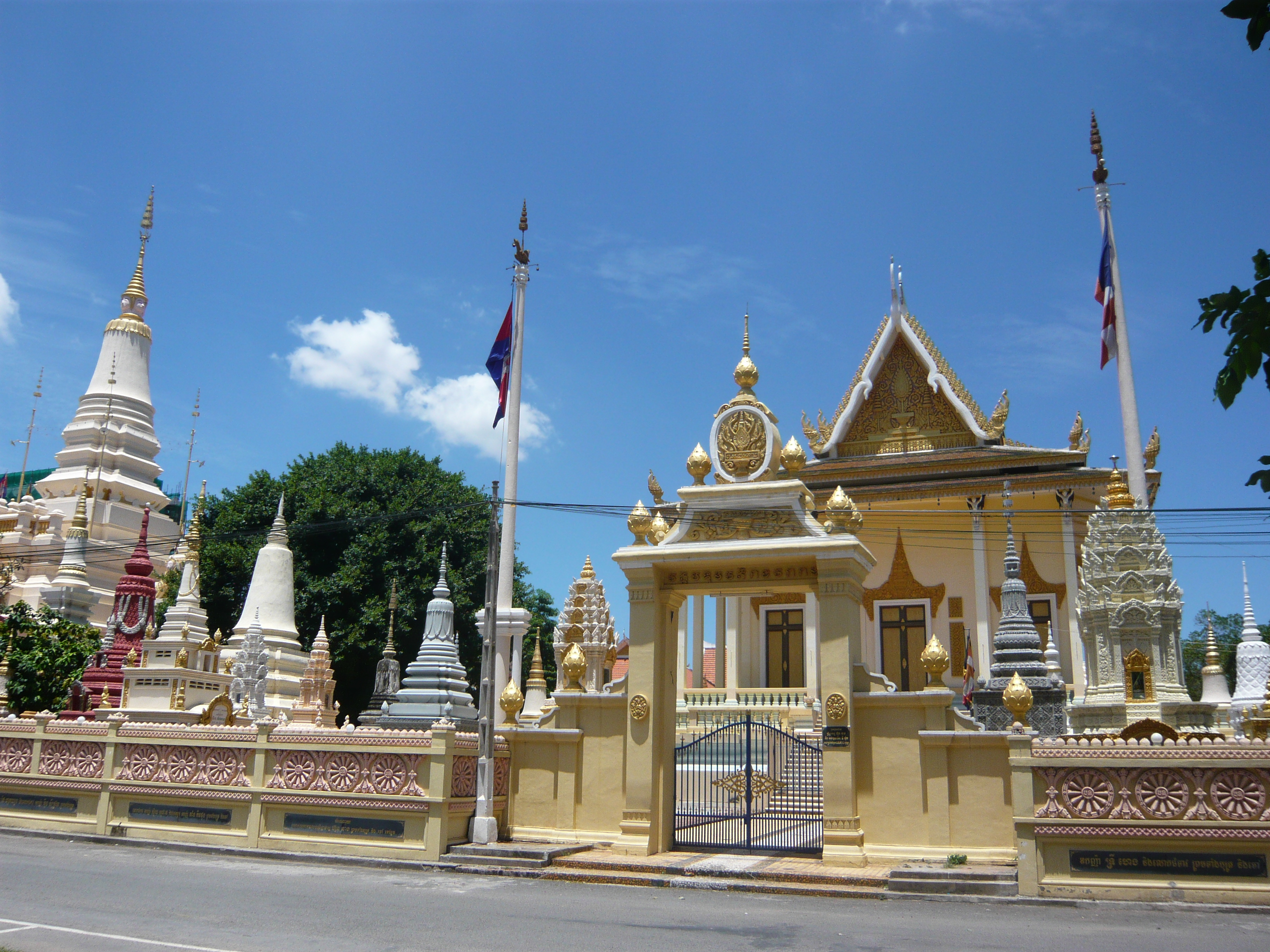 View of the Buddhist temple Wat Botum Vattey. Phnom Penh, Cambodia. July 2011.